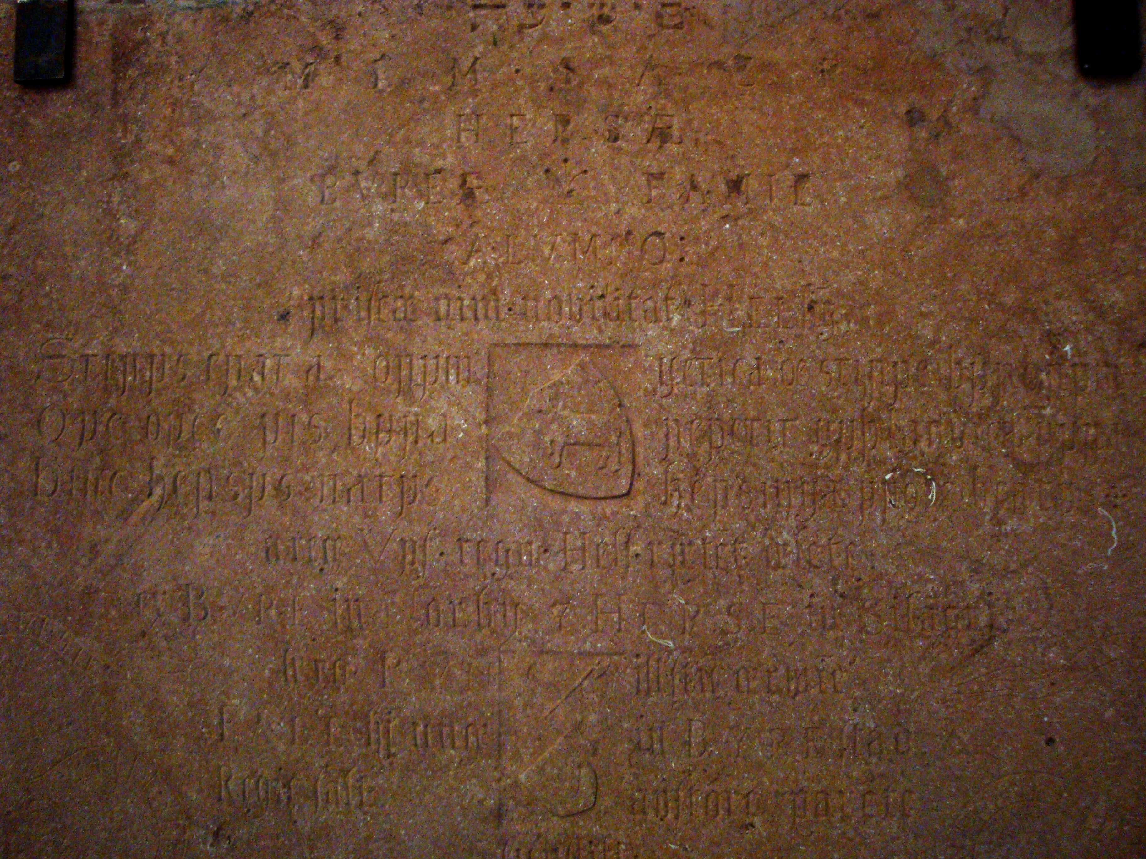 The upper part of the memorial stone that the Swedish antiquarian Johan Bure had made in 1611 in commemoration of the Bure family. The memorial stone is now in the Uppsala cathedral, Sweden.